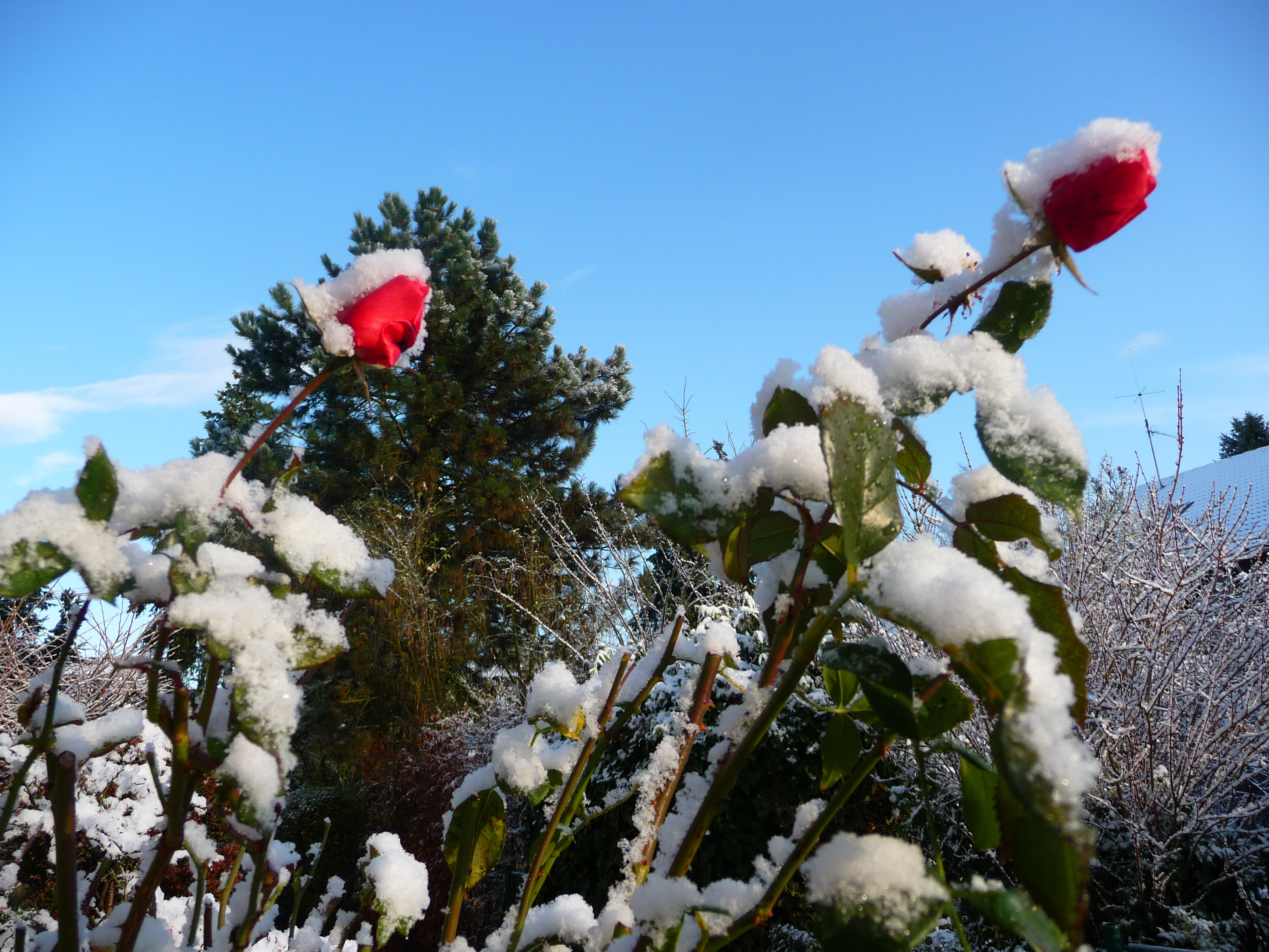 roses after first snowfall